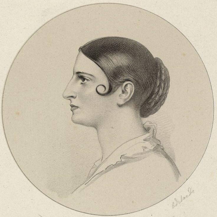 Extracted from Charles Kemble; Adelaide Kemble; Frances Anne ('Fanny') Kemble; John Mitchell Kemble; Henry Vincent James Kemble, by Richard James Lane (died 1872), given to the National Portrait Gallery, London in 1956. Adelaide Kemble (November 1815 – 4 August 1879), was a British opera singer of great promise in the first half of the nineteenth century.